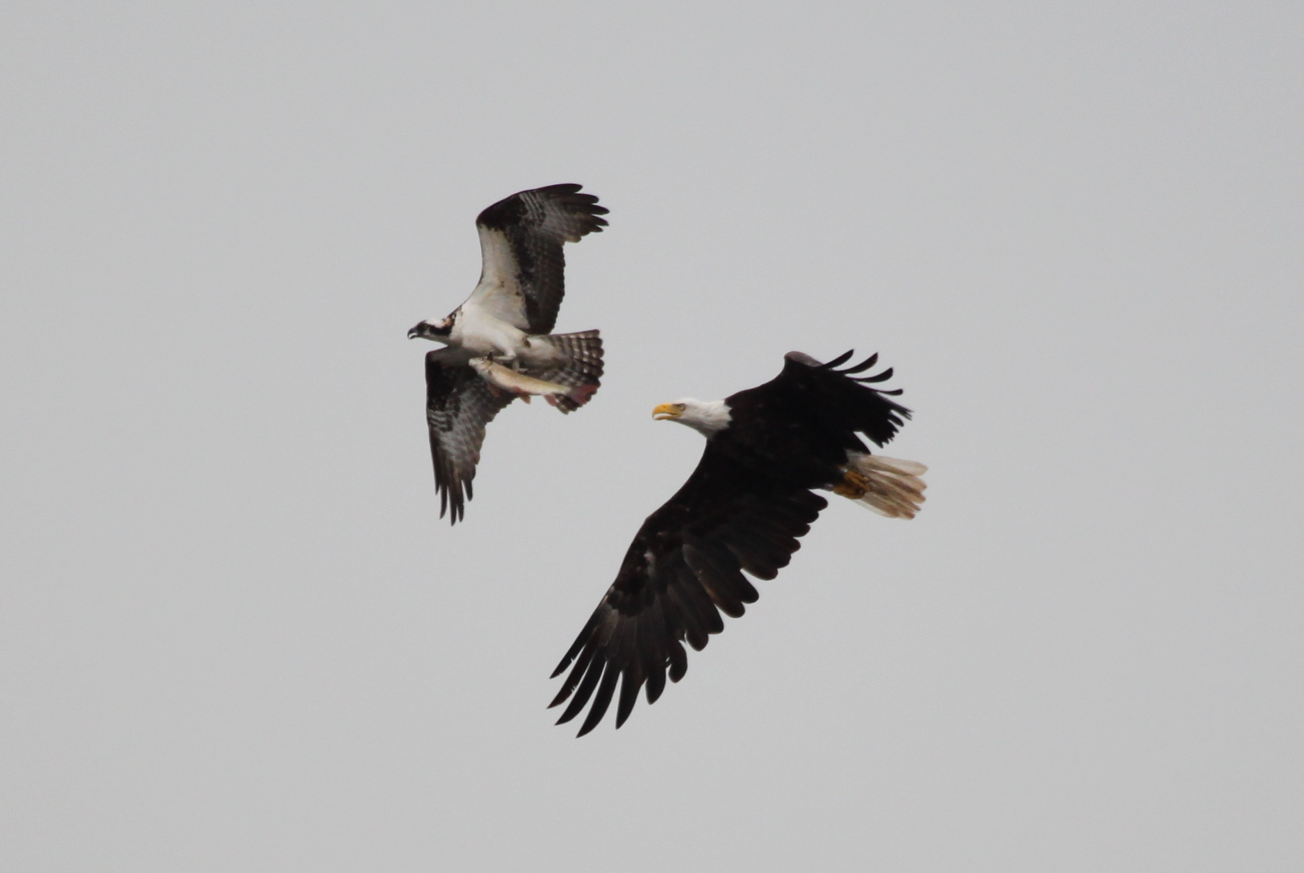 Birds of prey on the Peshtigo River at Potato Rapids Dam, Marinette County, Wisconsin, USA